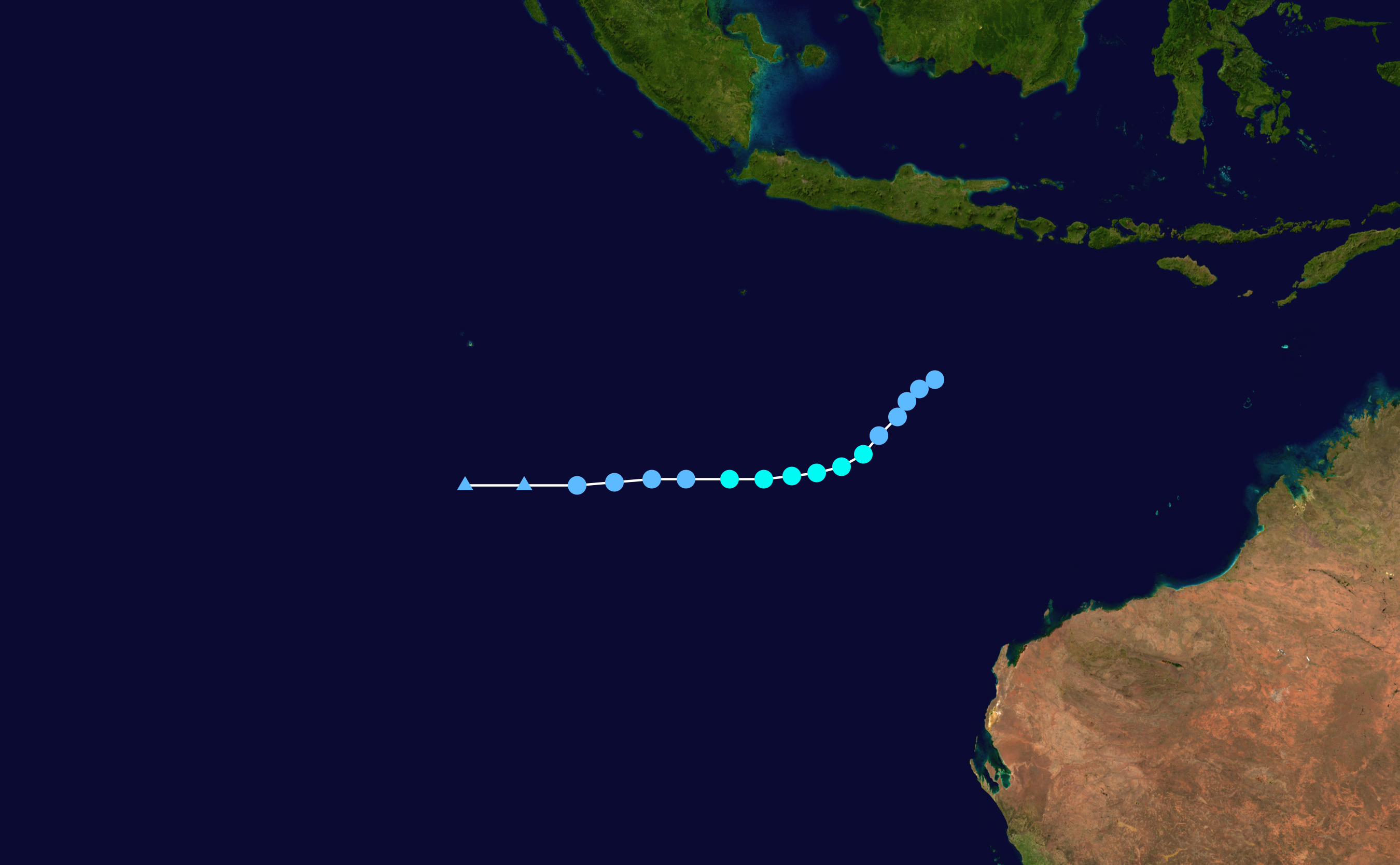 Cyclone Tim (2005) track. Uses the color scheme from the Saffir-Simpson Hurricane Scale.